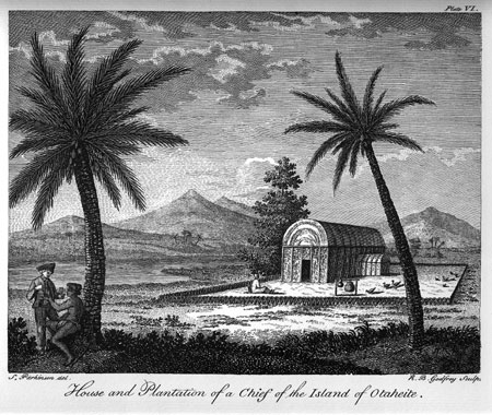 This is an image of a print entitled "House and Plantation of a Chief of the Island of Otaheite." by Sydney Parkinson.